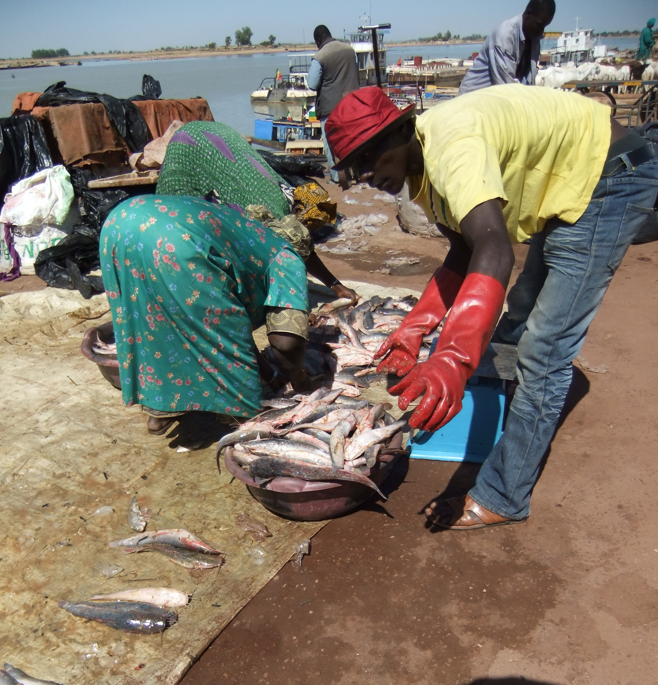 Mopti, Mali This is an image of "African people at work" from Mali